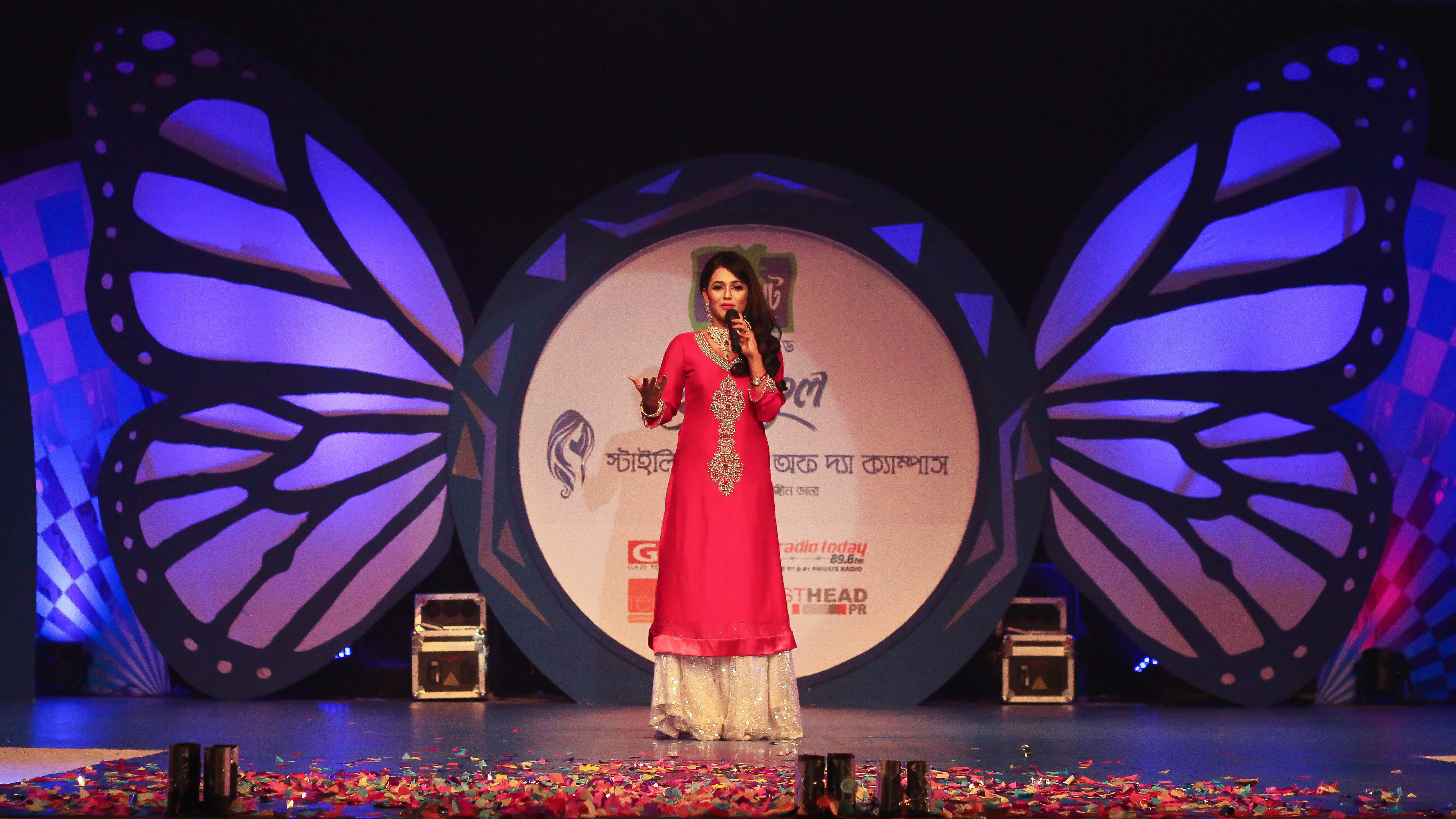 Nusrat Faria Mazhar